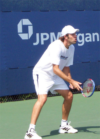 image taken by me of Greg Rusedski at the 2004 U.S. Open